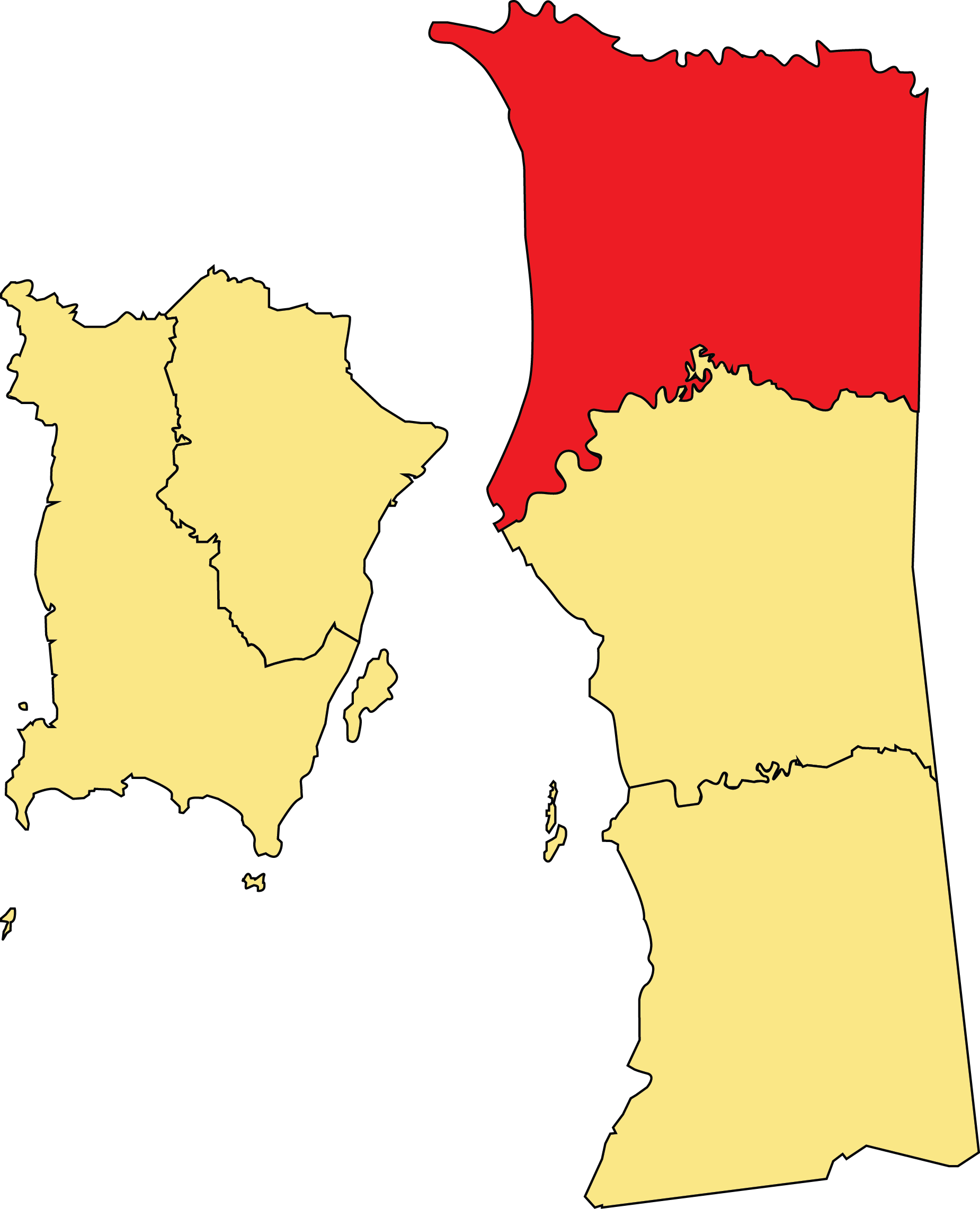 Location of North Seberang Perai District within the state of Penang, Malaysia.